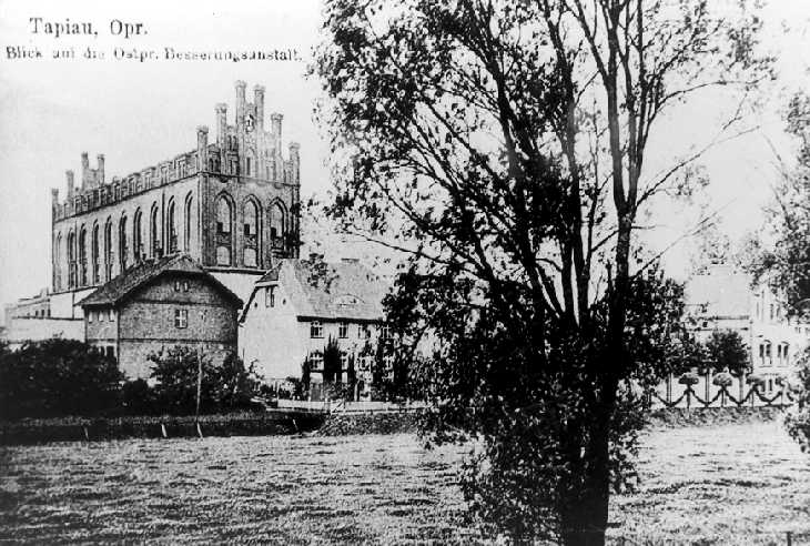 Gvardeisk (before 1945 Tapiau) Burg Tapiau